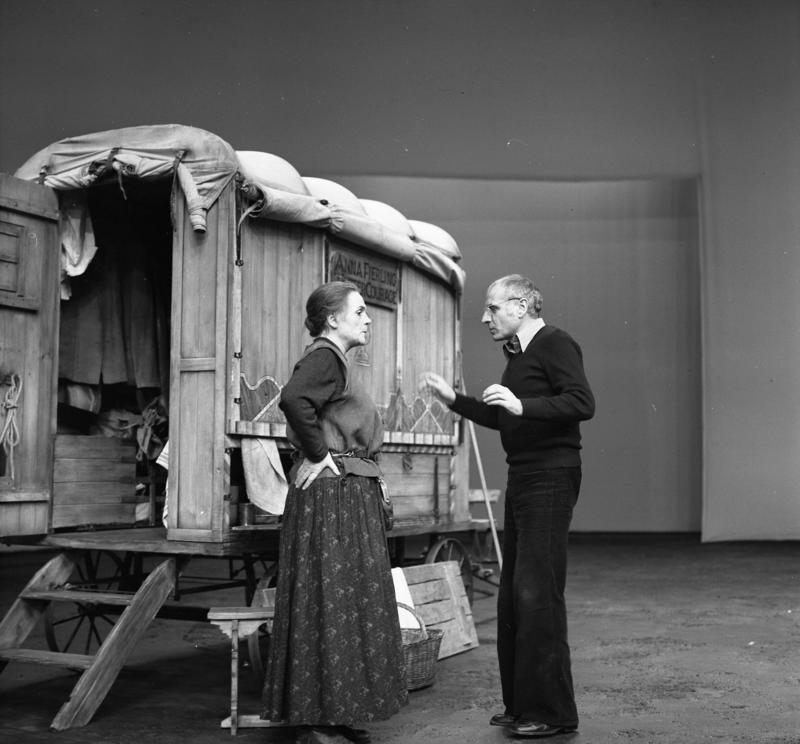 Gisela May as Mother Courage and director Manfred Wekwerth during a rehearsal of Bertolt Brecht's play Mother Courage and Her Children, Theater am Schiffbauerdamm, Berliner Festtage XXII